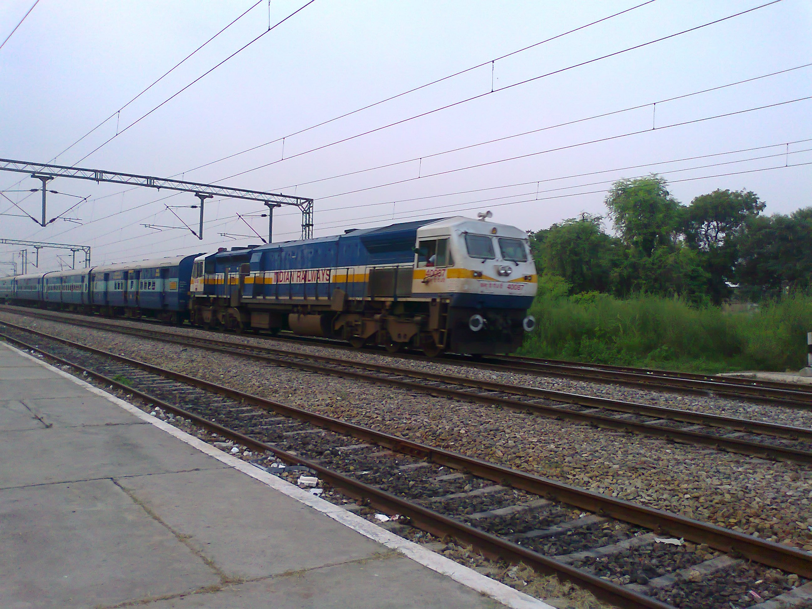 18238 (Amritsar - Bilaspur) Chhattisgarh Express with WDP4D (40087) locmotive at Chiheru, near Jalandhar